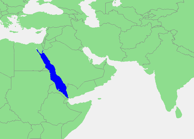 Location of the Red Sea